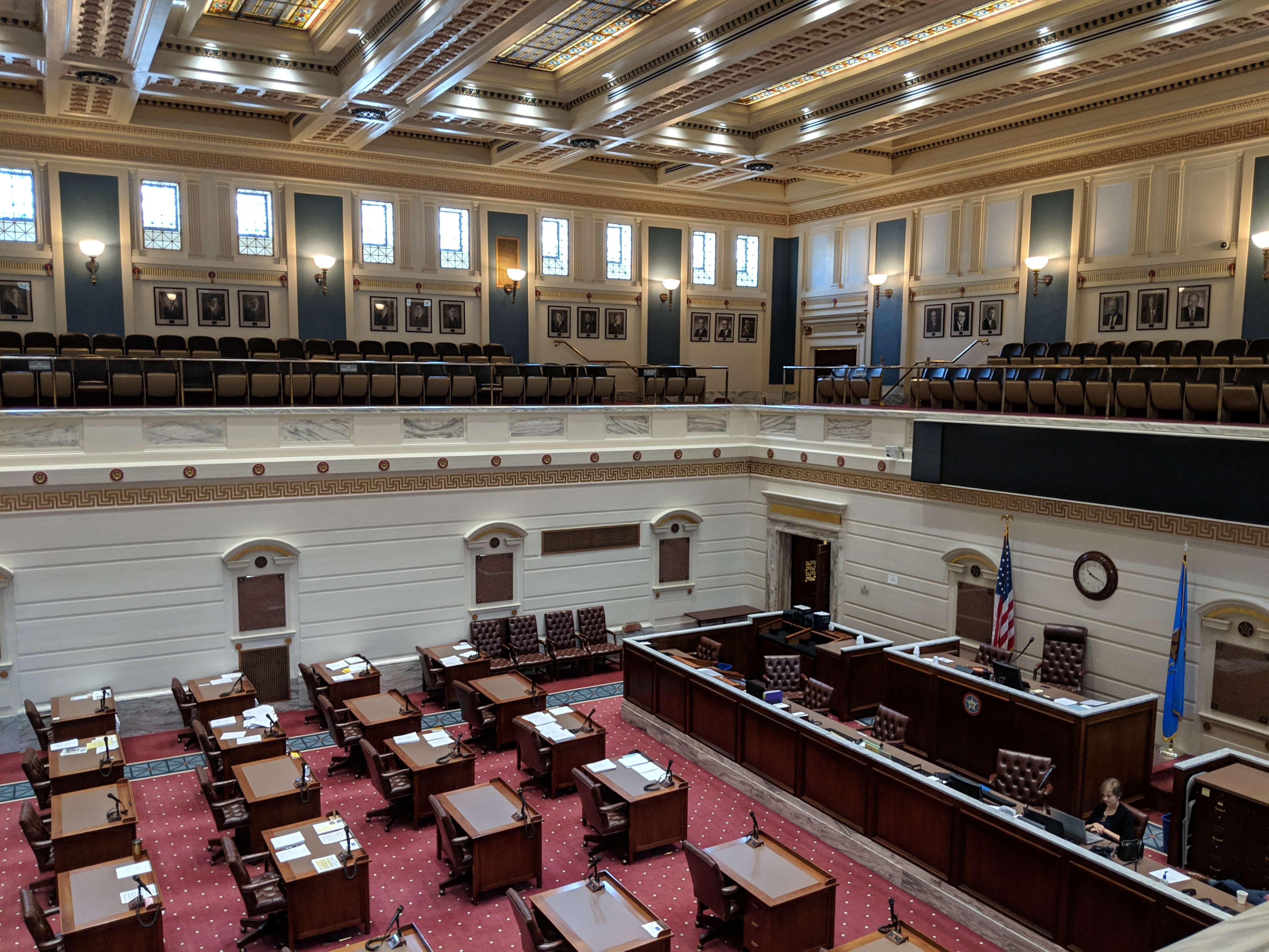 Oklahoma State Senate chamber, taken from visitor's balcony